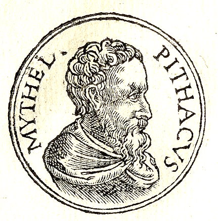 Pittacus of Mytilene (c. 640-568 BC) was the son of Hyrradius and one of the Seven Sages of Greece.